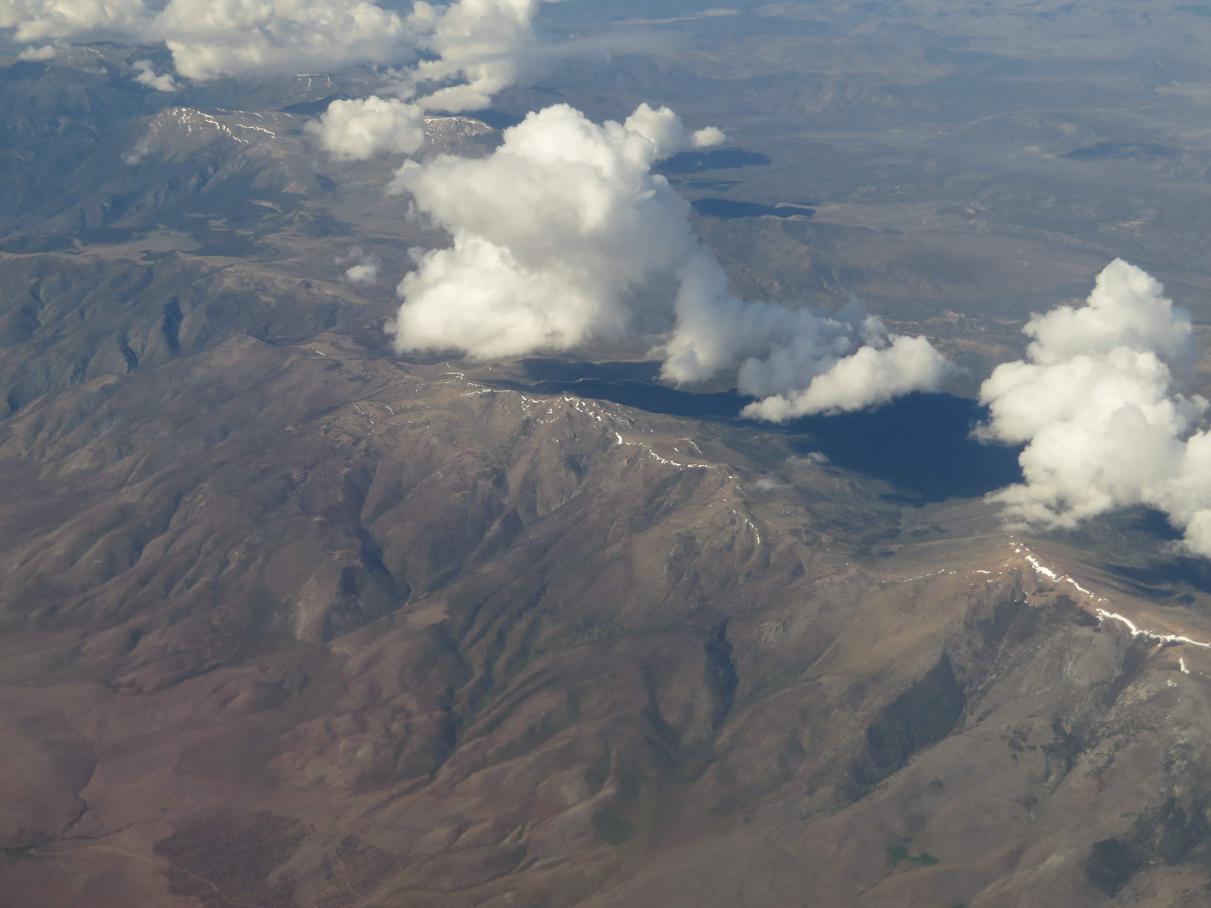 The Pine Nut Mountains are a north-south mountain range in the Great Basin, in Storey County of northwestern Nevada, United States. The highest mountain in the range is Mount Siegel at 9,456 ft (2,882 m). The range starts in the north at the Virginia Range (famous for Virginia City and the Comstock Lode). They continue south for approximately 40 miles where they join with the Sierra Nevada near Topaz Lake and Leviathan Peak. They are bounded on the west by the Carson Valley and to the east by Mason Valley. The Pine Nut Mountains take their name from the Single-leaf pinyon pines that dominate the slopes between 5000–7000 ft. This is mixed with juniper to form the standard Pinyon-juniper woodland plant community. Lower slopes are dominated by Sage-Juniper. The Pine Nut Mountains have been used throughout history by a number of groups for various purposes. The Washoe tribe used (and still uses) the vast quantities of Pinyon pine for the nuts as a staple in their diet. The nuts were collected, roasted, and cached during the fall for use during the lean months of winter. After the discovery of silver and gold in the area, the Pine Nut Mountains became a key source of timber for the building boom and charcoal for the smelters, thus depleting many of the traditional Washoe collection areas. Today, the range is still used by the Washoe for traditional purposes as well as hikers, hunters, and other outdoor enthusiasts.